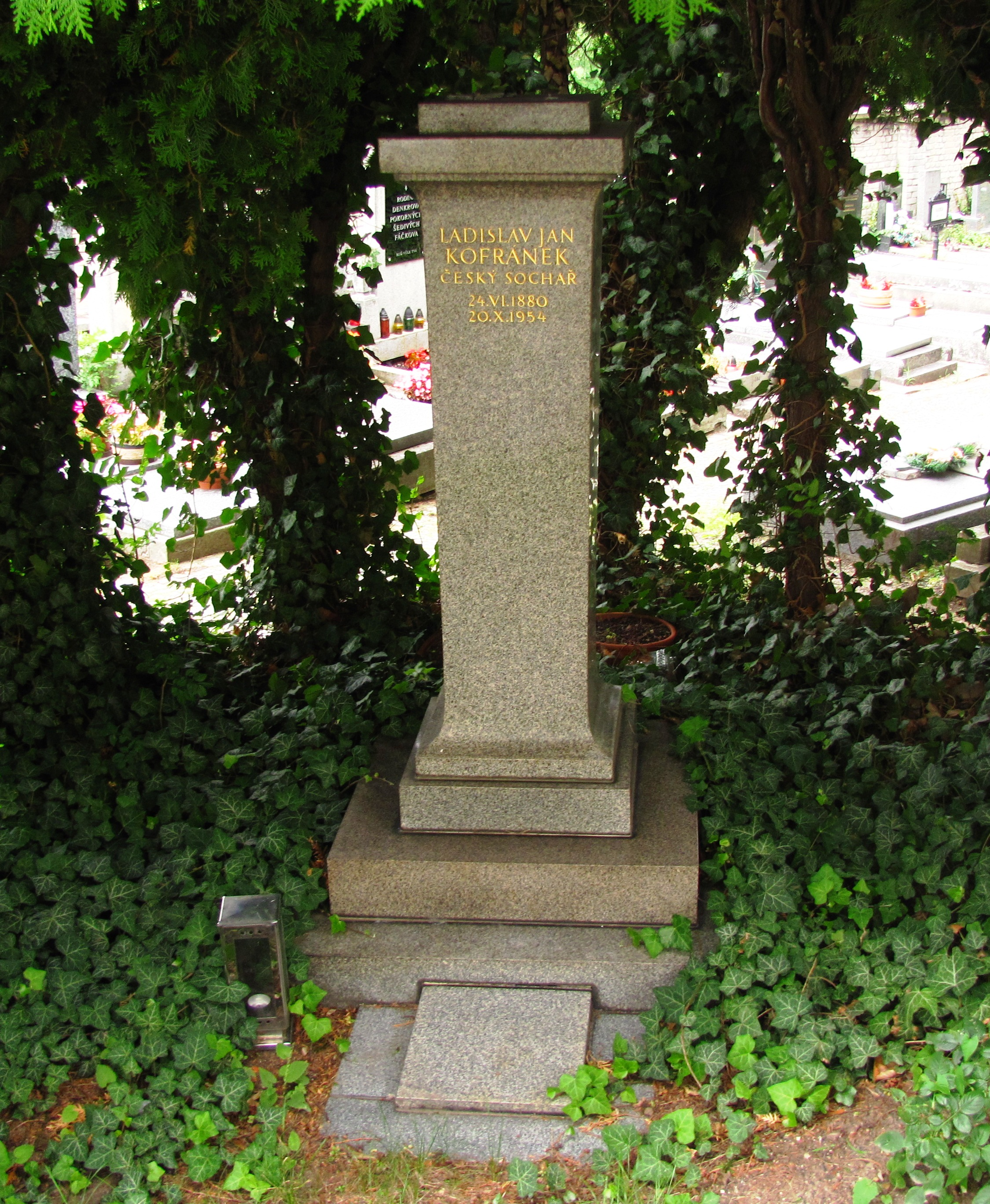 Tomb of Ladislav Jan Kofránek, Czech sculptor (Šárka Cemetery in Prague)